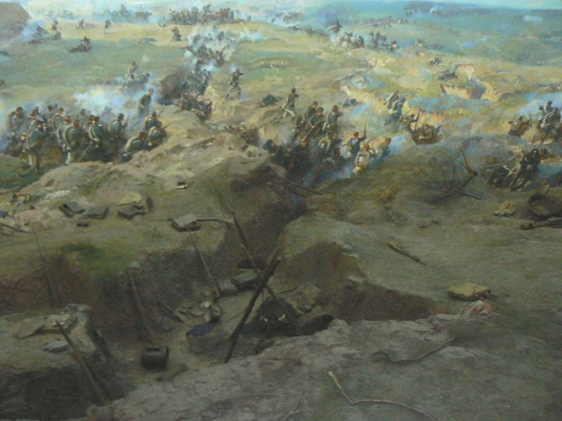 Photo from the Panorama "Pleven epopee 1877", Pleven, Bulgaria